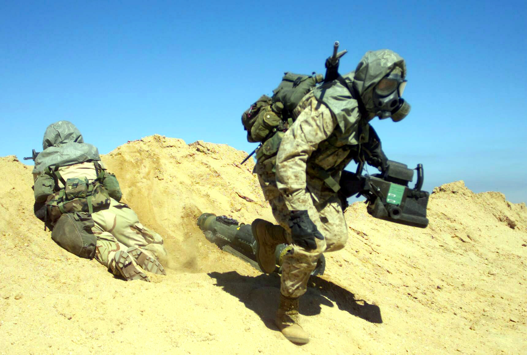 U.S. Marines assigned to the 7th Marines 3/4 Weapons Company run a Nuclear, Biological, Chemical (NBC) training exercise with the Javelin Missile launch system during Operation Enduring Freedom. The FGM-148 Javelin-launcher lies in the sand behind the soldier.